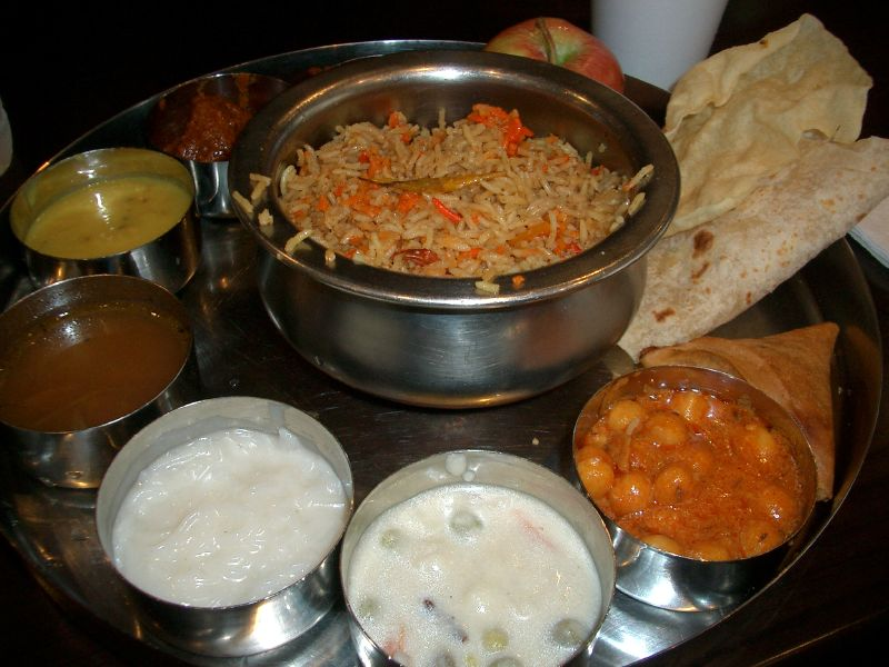 Lunch Thali, well worth the AUD9.90. Funny how they include an apple! :) In Melbourne, on Elizabeth Street, near the corner of Latrobe Street.